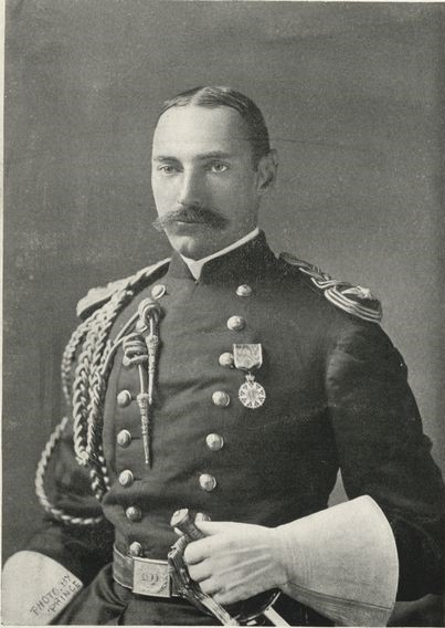 Portrait of John Jacob Astor IV (1864-1912)